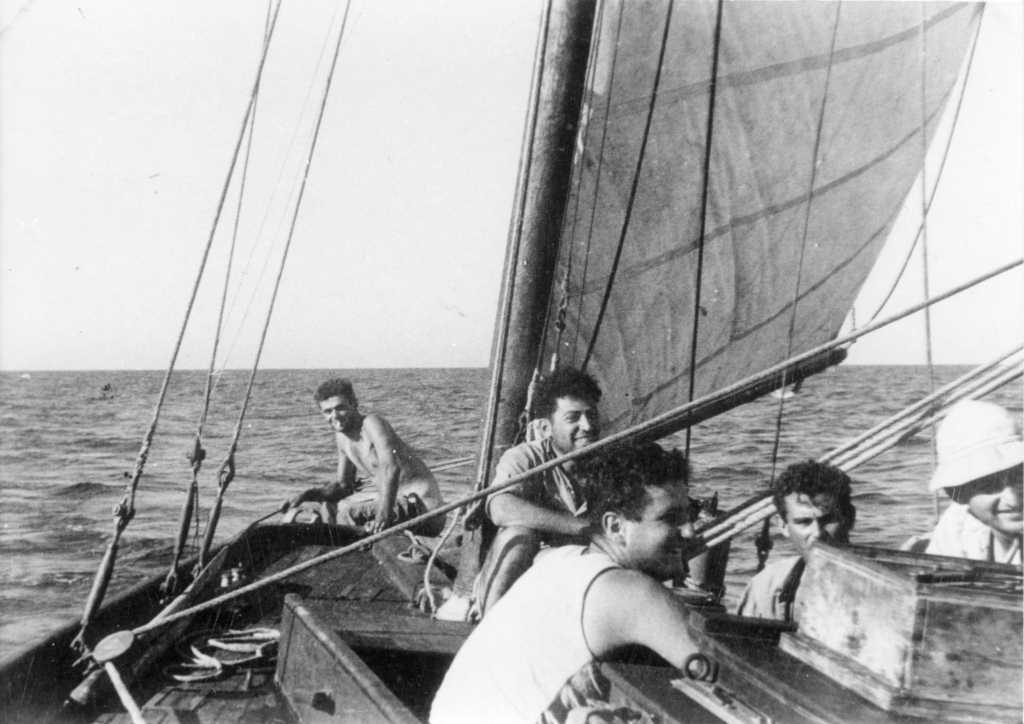 The Palmach, Israel Defense Forces